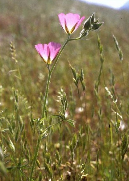 Sidalcea keckii USFWS photo